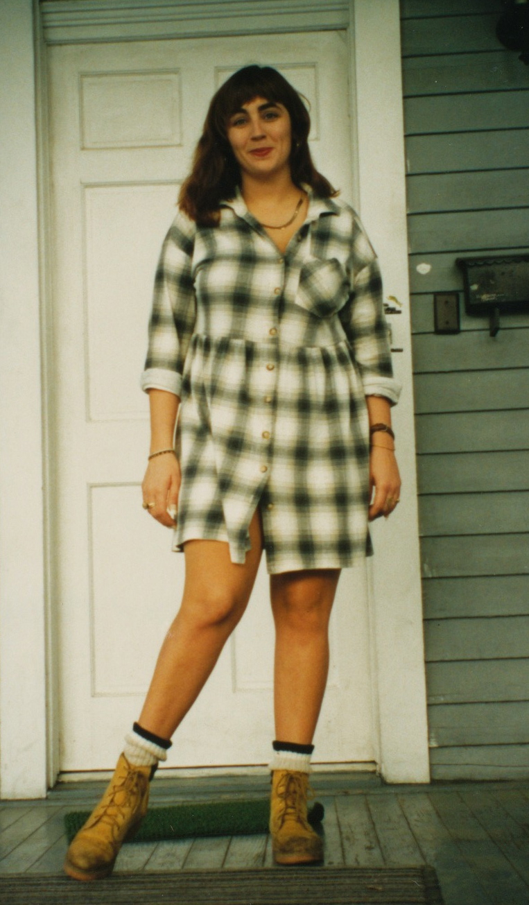 Red haired woman standing on porch, Uptown New Orleans. 1995.